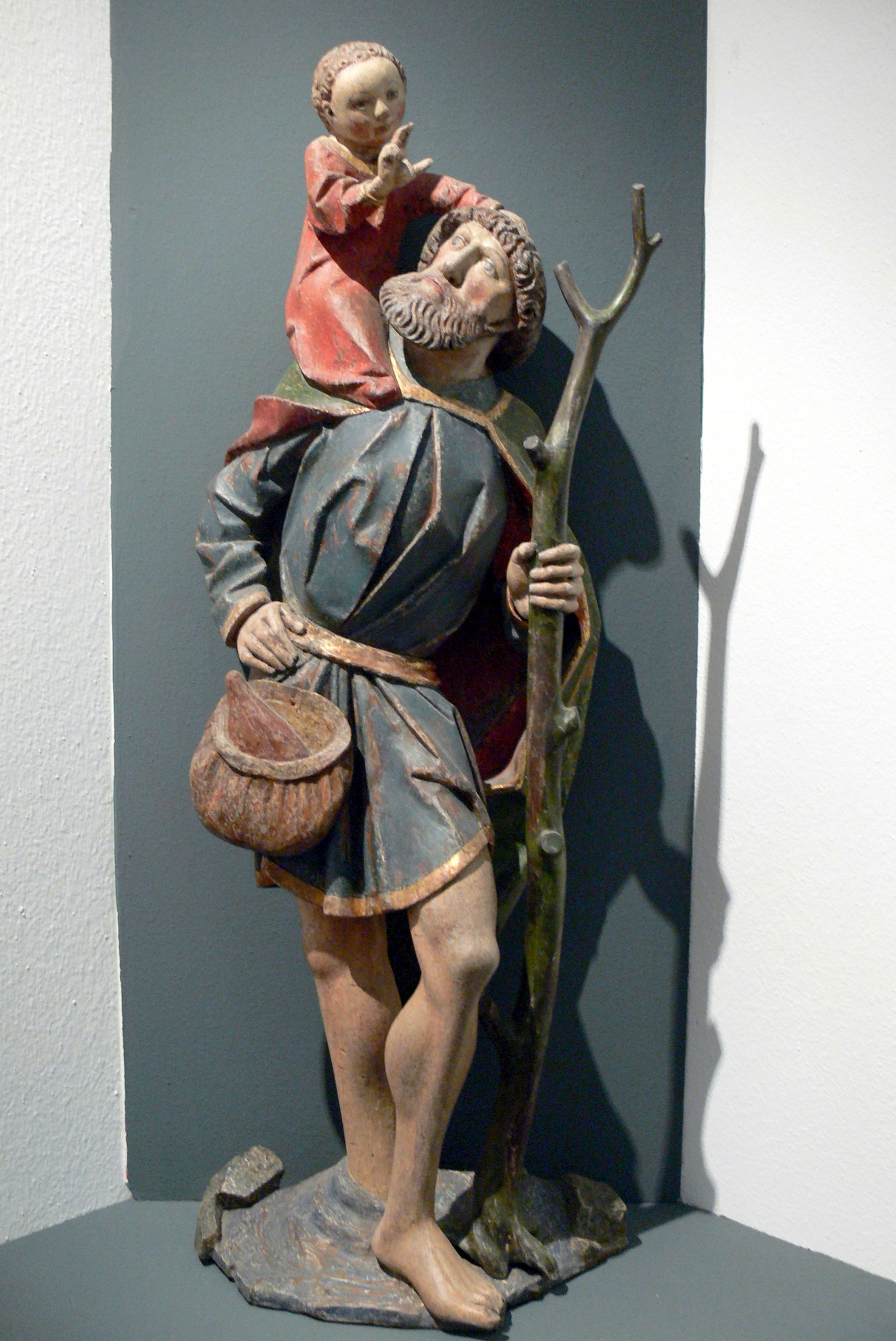 Museum of Mining and Gothic art in Leogang ( Salzburg state ). Gothic collections: Statue of Saint Christopher ( ca. 1480 ), from Tyrol.